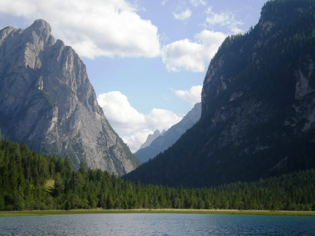 Toblacher See. (other)